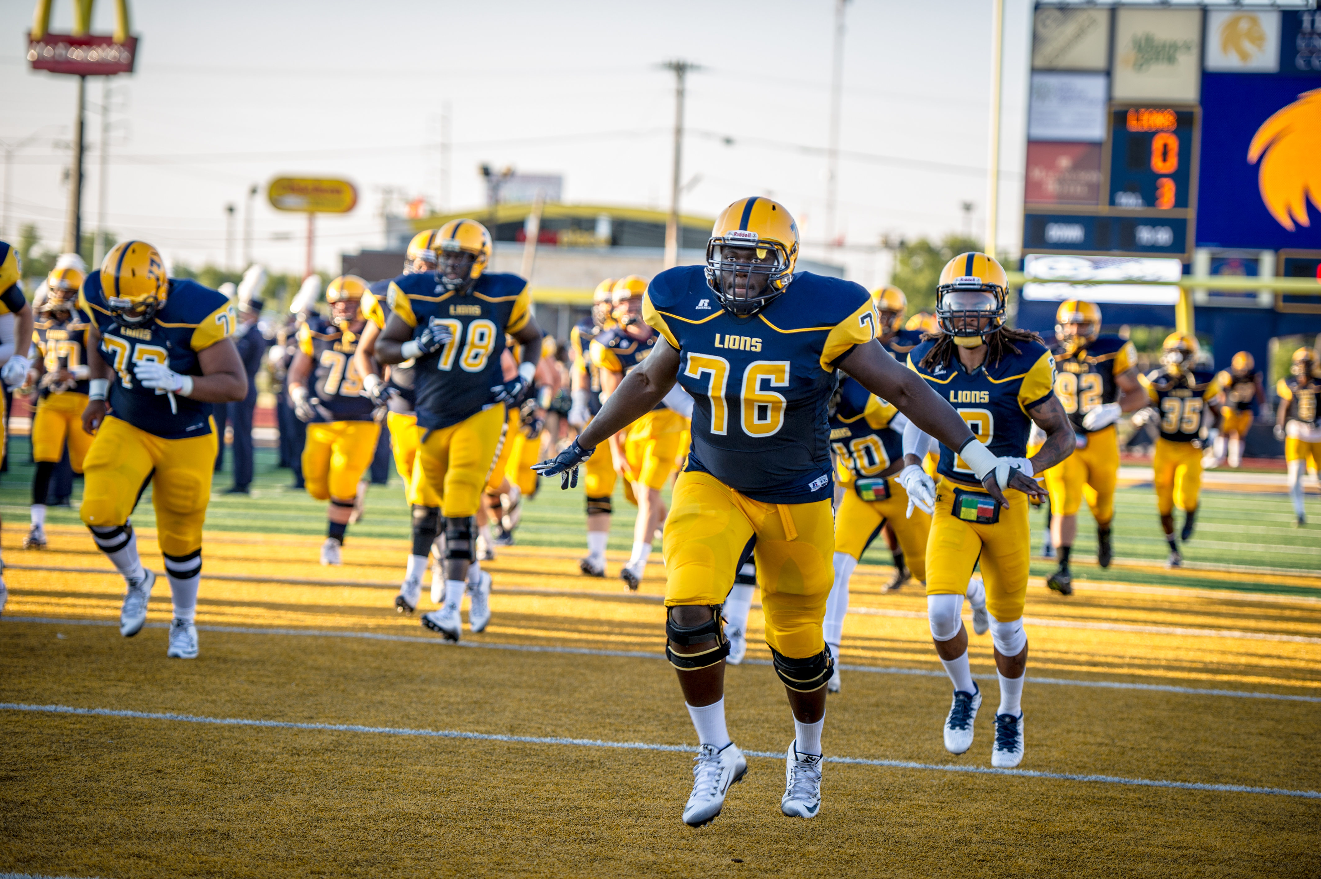 Adams State Grizzlies vs. Texas A&M–Commerce Lions